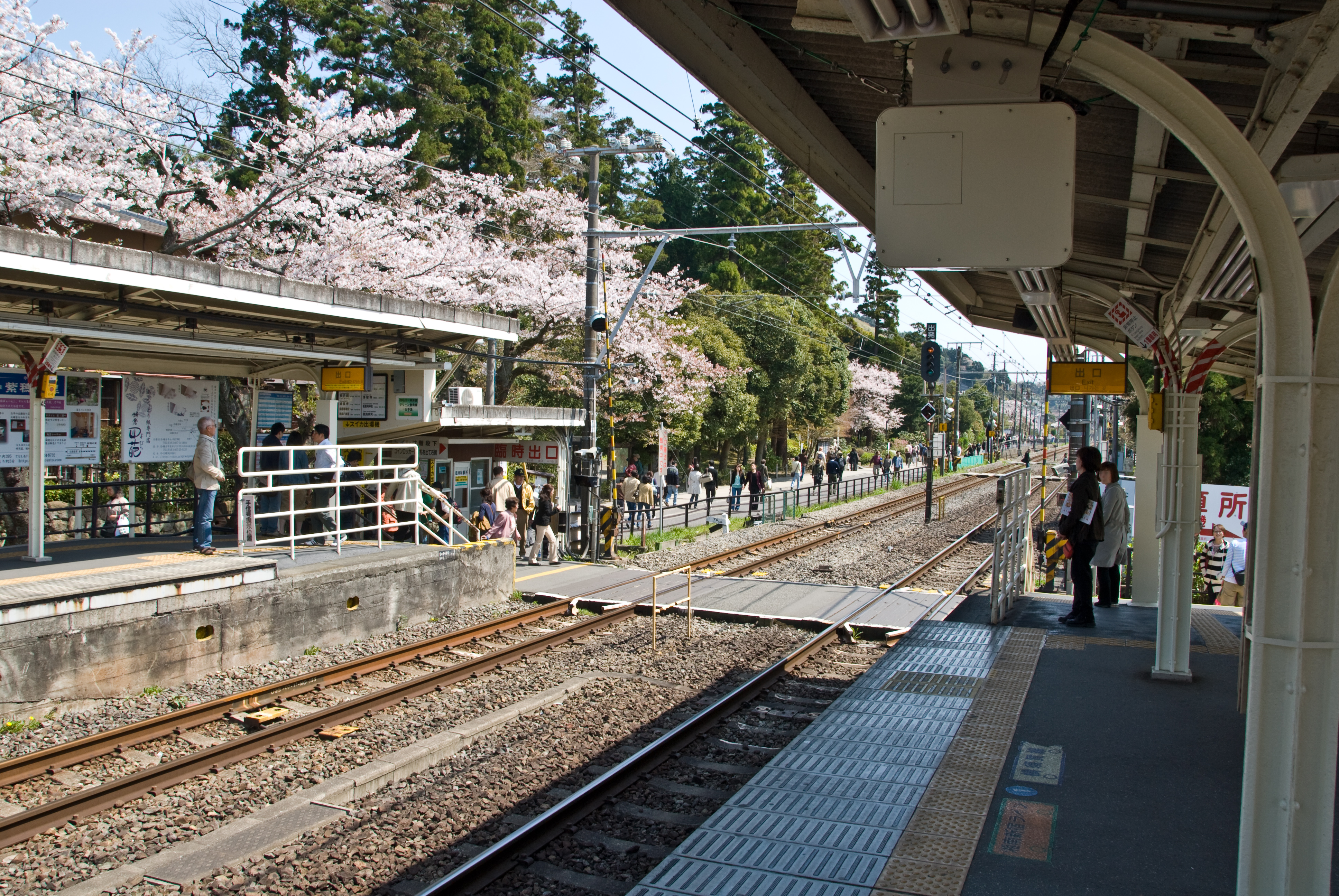 Kita-Kamakura Station in April 2008, with the cherry trees in full blossom